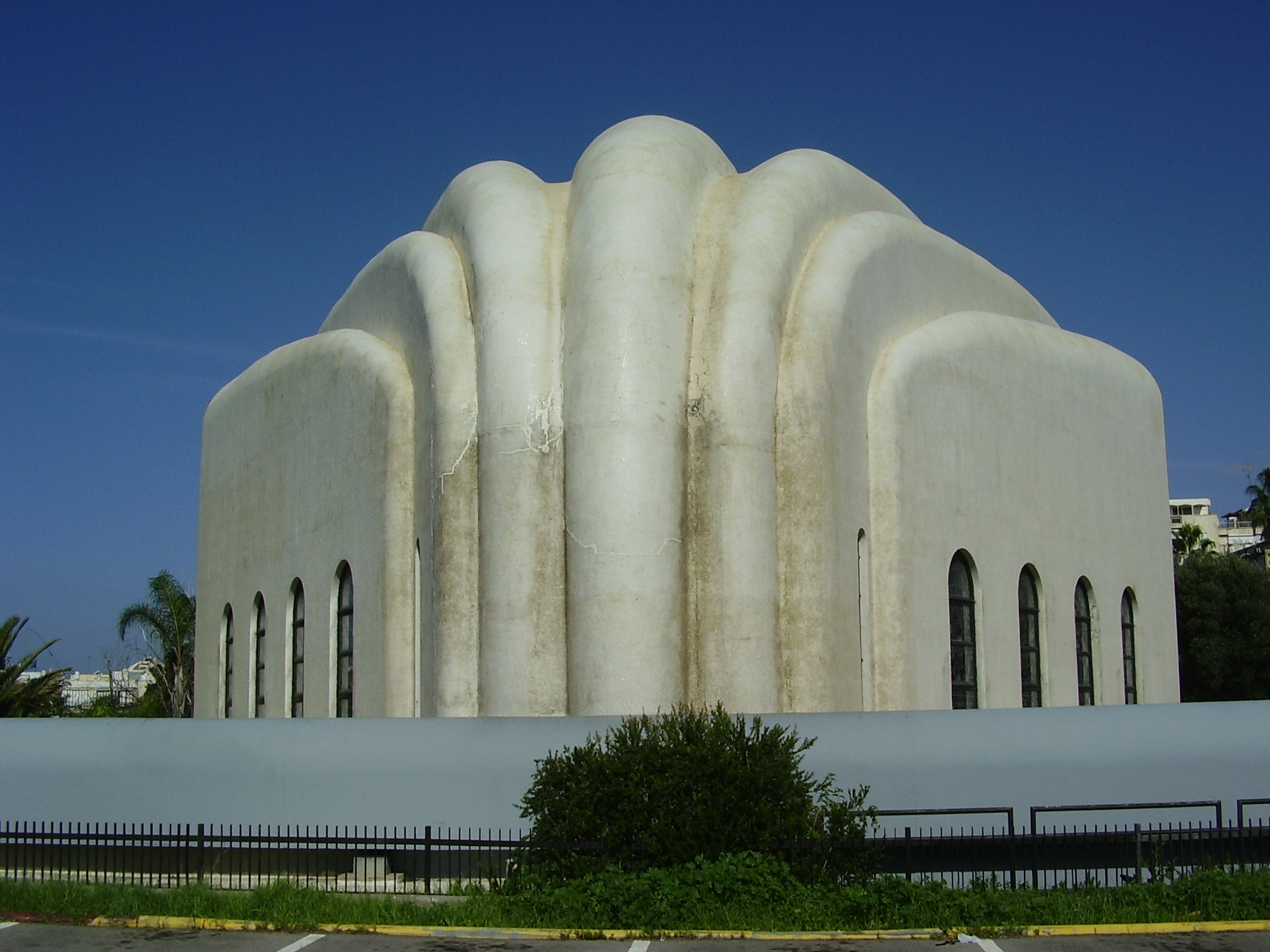 saloniki\'s synagogue in tel aviv